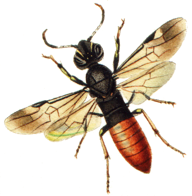 Orussus coronatus (Symphyta).